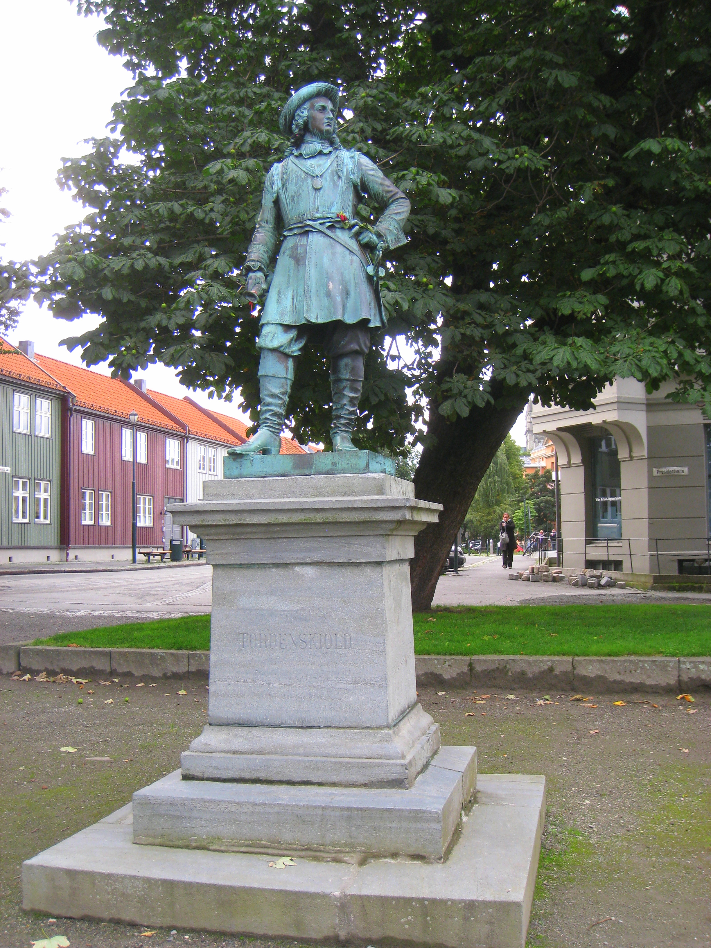 Monument to Peter Wessel Tordenskiold, Trondheim, Norway.